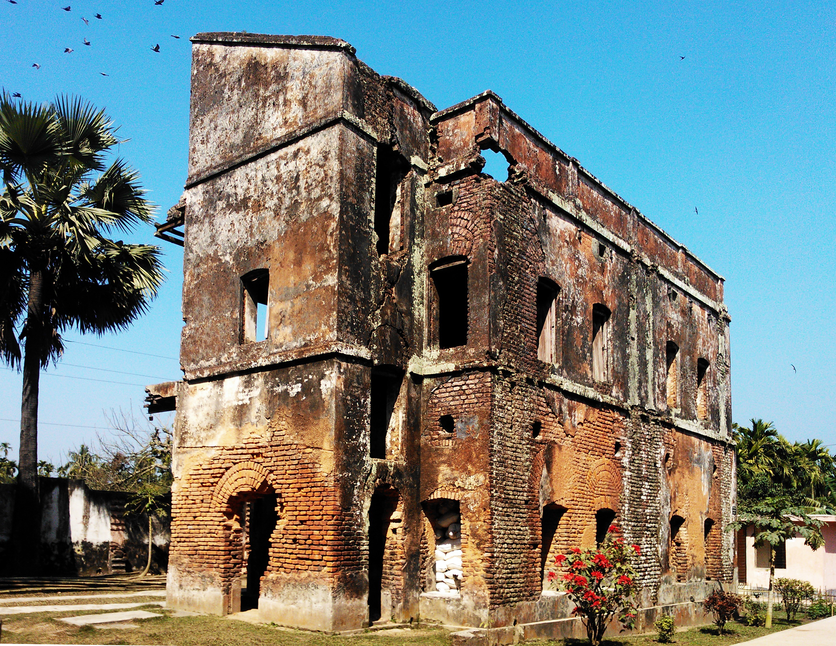 Baliati Palace, Saturia, Manikganj, Bangladesh.